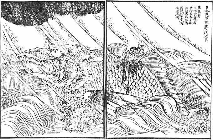 "Yamato Takeru and monster fish" (日本武尊悪魚を退治す) from the Konpira-sankei-meisho-zue (金毘羅参詣名所図会)